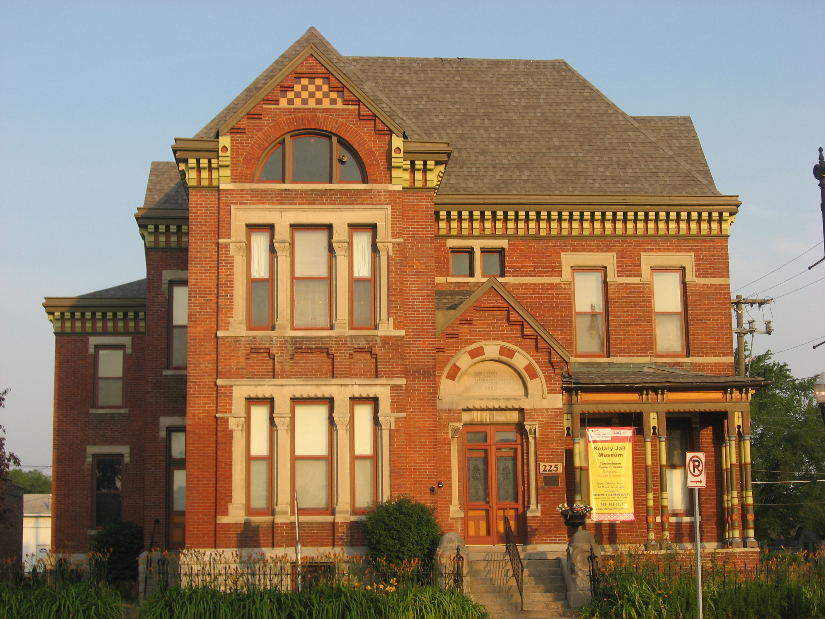 Front of the Montgomery County Jail and Sheriff's Residence, located at 225 N. Washington Street (U.S. Route 231) in Crawfordsville, Indiana, United States. Built in 1882, it is listed on the National Register of Historic Places.